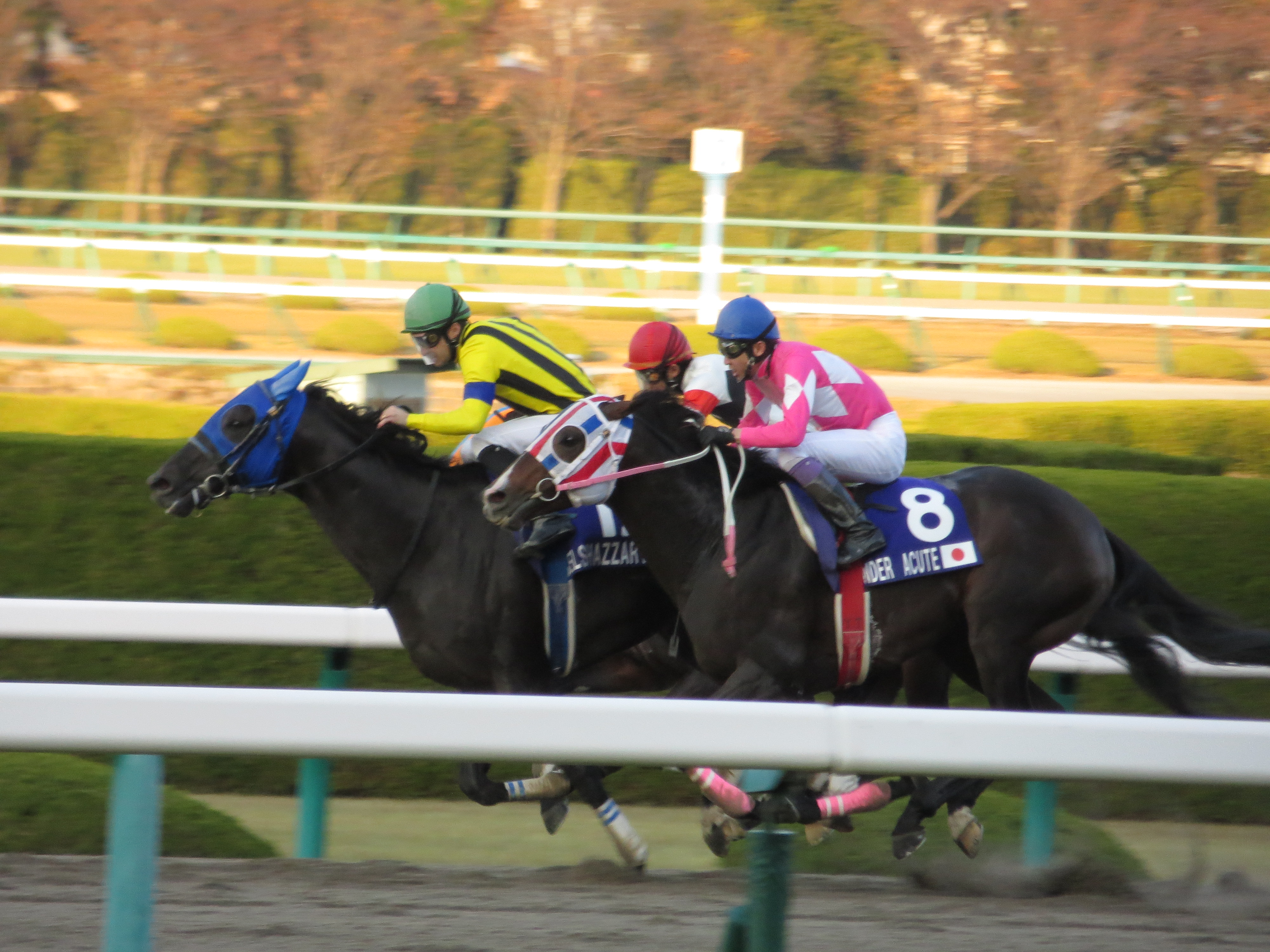 14th Japan Cup Dirt(Hanshin Racecourse)